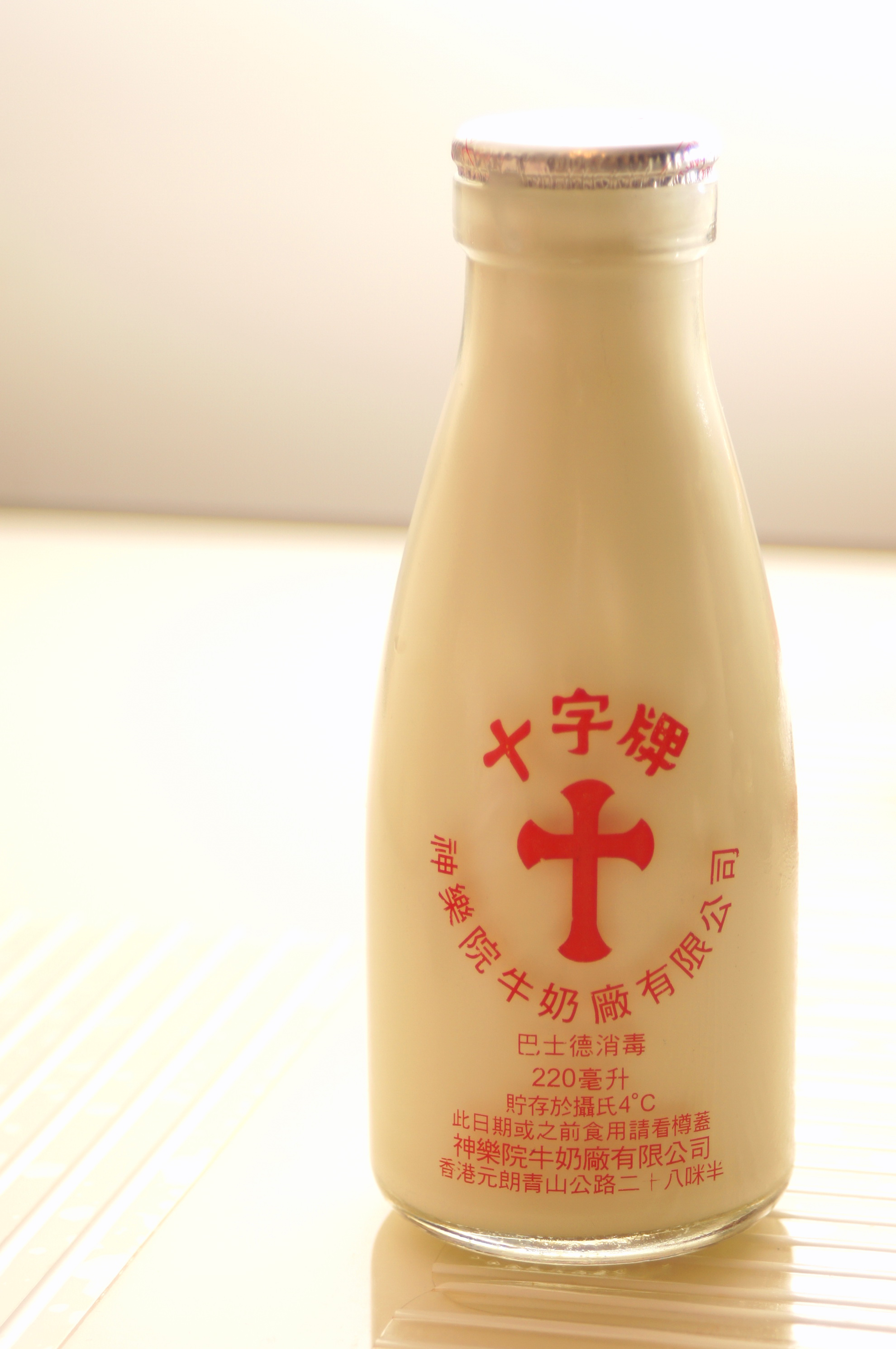 Trappist Dairy Bottled Milk (220ml), Trappist Dairy Limited Hong Kong.